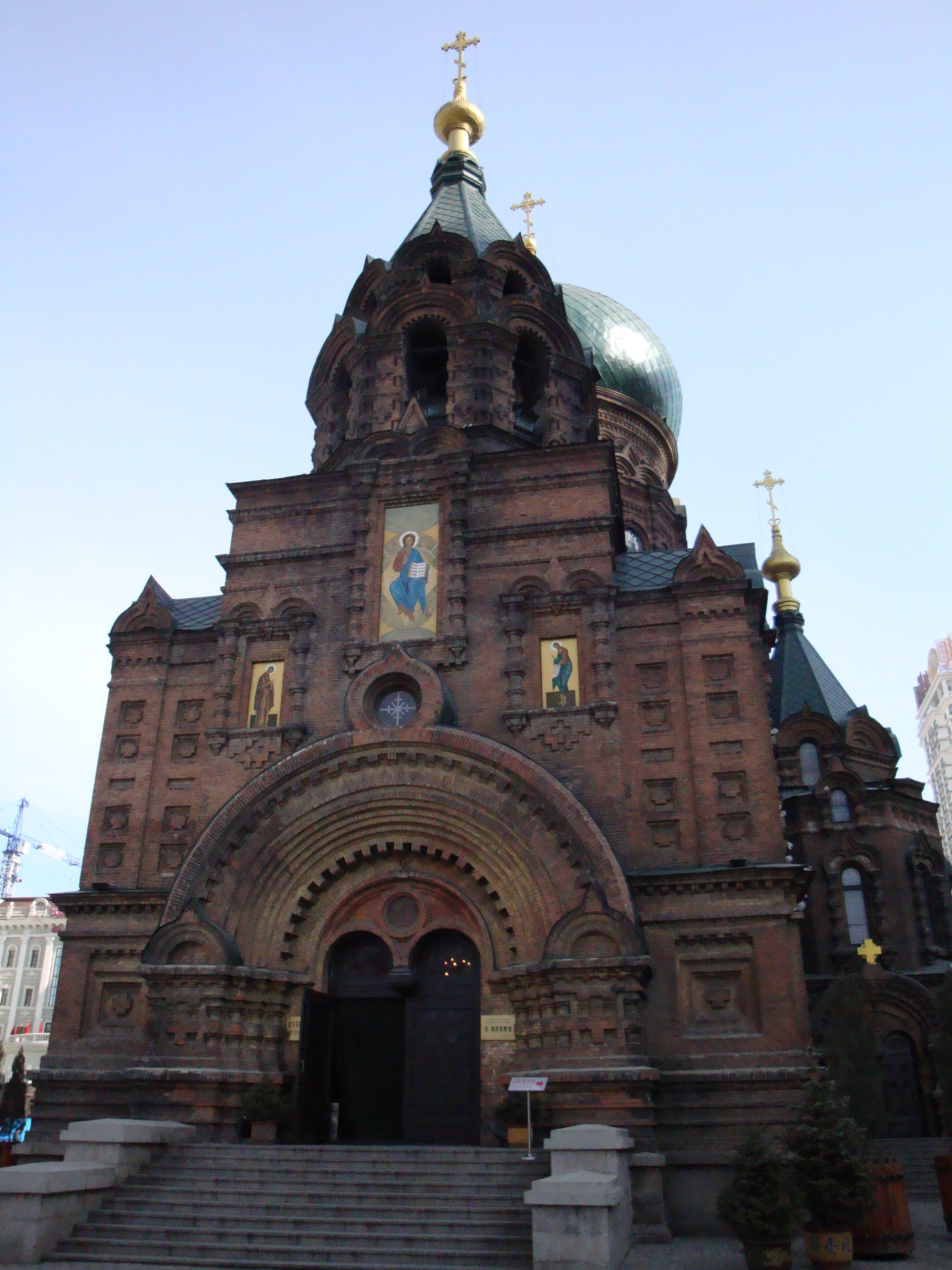 Saint Sophia Cathedral Harbin